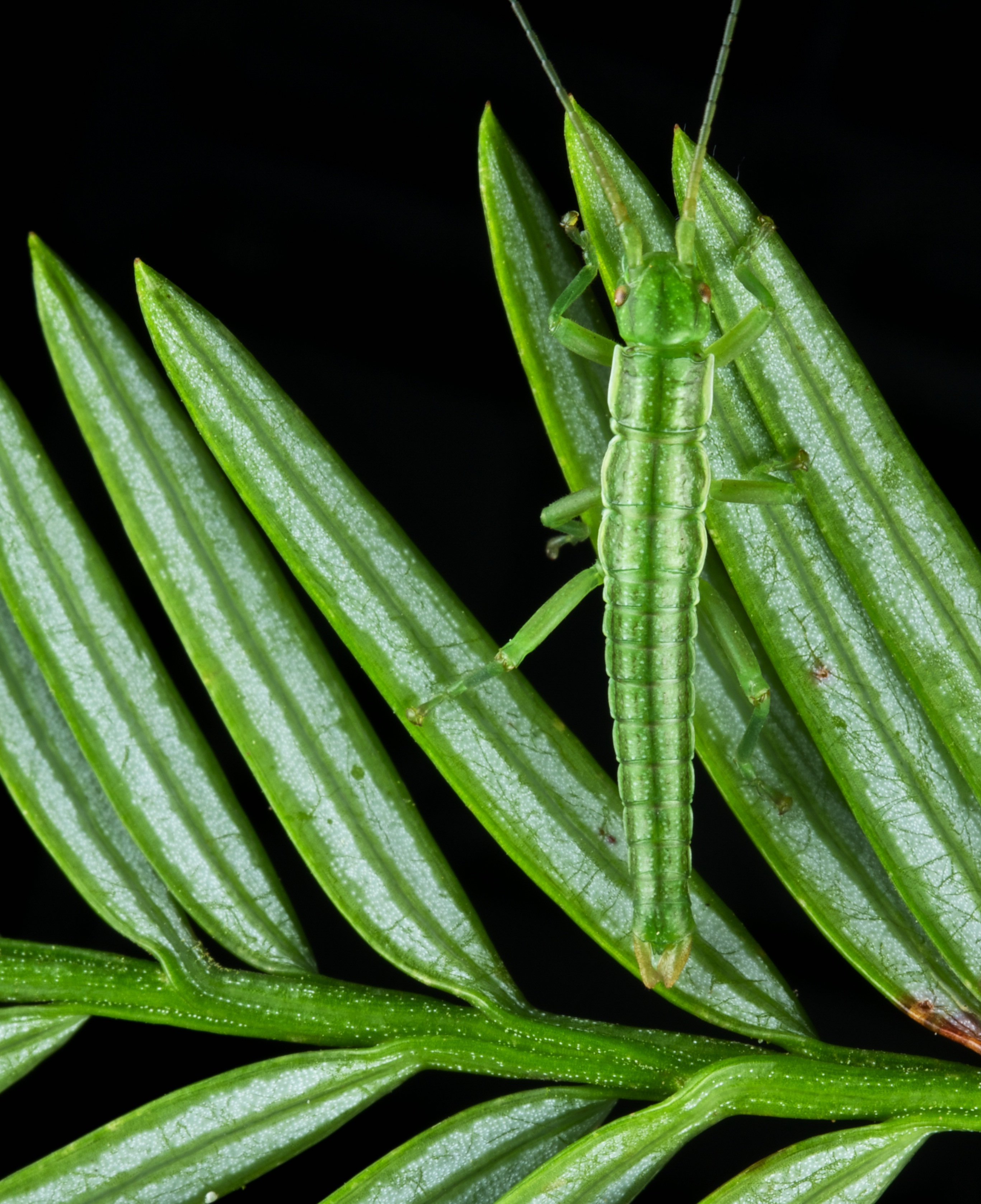 Timema poppense perfectly camouflaged on its host, Redwood Sequoia sempervirens, California. This and other, closely related, species are adapted to live on very different host plants and at different elevations. These ecological specialisations have triggered the splitting into distinct species. How this ecological speciation is promoted, for example by divergent camouflage, can be studied by comparing species of Timema stick insects. Analysis of their DNA also reveals which regions in the genome play important roles in ecological speciation. The results of this research will advance our understanding of how biodiversity forms generally.”